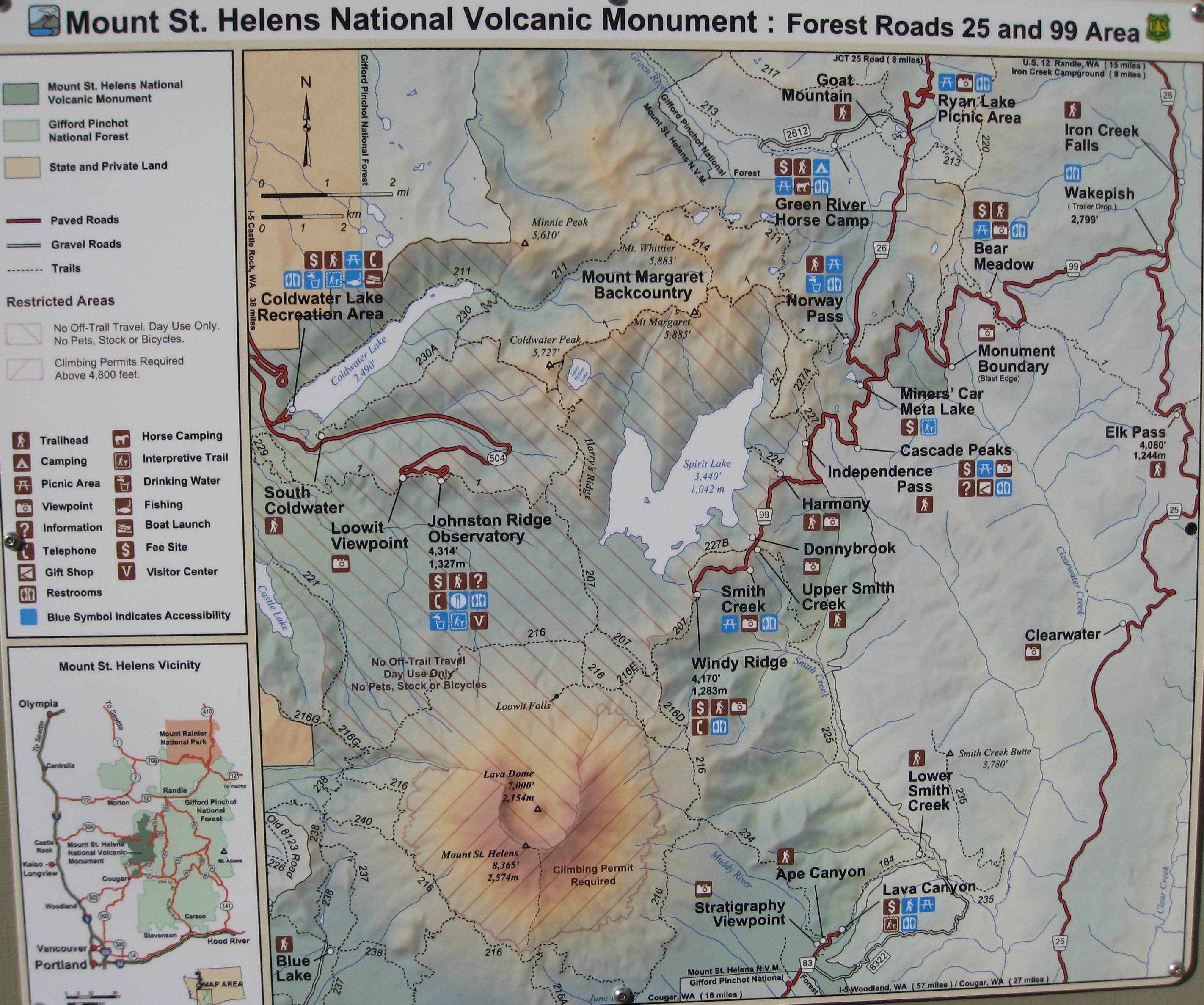 Heading up to Mount St Helens northeast side. We'll camp tonight and hike into the crater in the morning. sth 003